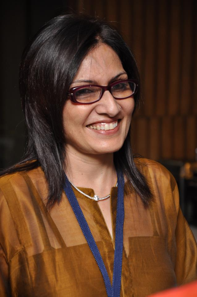 Its an image of a person